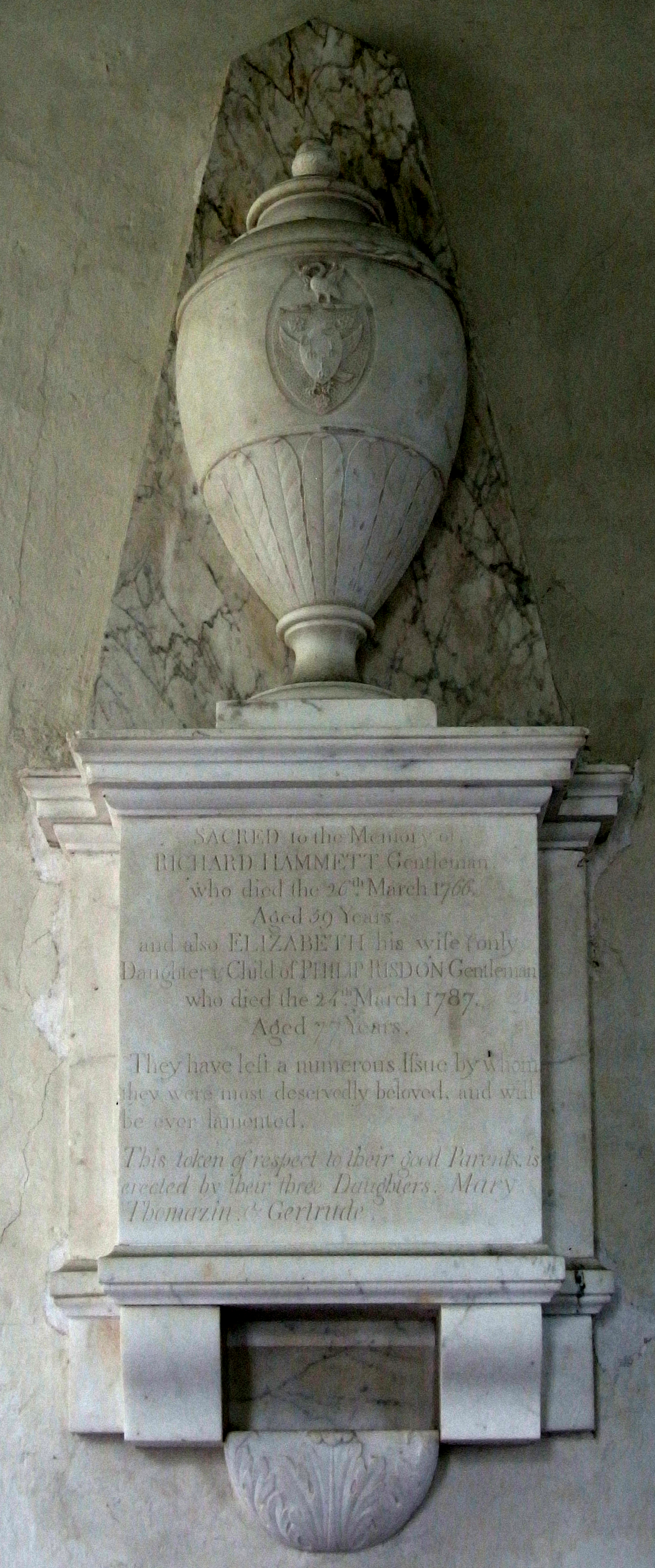 Wall-mounted monument in All Hallows' parish church, Woolfardisworthy, Devon to Richard Hammett (1707–66) of Kennerland. It reads: "Sacred to the memory of Richard Hammett, Gentleman, who died the 26th March 1766 aged 59 years and also Elizabeth his wife (only daughter and child of Philip Risdon, Gentleman) who died the 24th March 1787 aged 77 years. They have left a numerous issue by whom they were most deservedly beloved and will be ever lamented. This token of respect to their good parents is erected by their three daughters Mary, Thomazin & Gertrude". On the urn is shown an heraldic escutcheon showing the arms of Hammett: Or, a falcon sable belled gules between three roses gules leaved vert (Betham, Baronetage of England, Vol.4, London, 1804, pp.304-305, Hamlyn Baronets) with inescutcheon of pretence: Argent, three birding bolts sable (Risdon). Above is the Hammett crest: A swan with wings endorsed argent collared gules winged beaked and legged or holding in his beak a bolt sable (Betham, Baronetage of England, Vol. 4, London, 1804, pp.304-305)